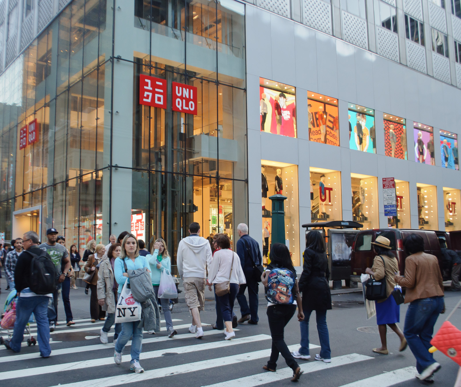 This is Japanese casual clothing store Uniqlo's Global Flagship Store, on Fifth Avenue at 53rd Street in New York City. This location opened in October 2011, and New York City has been blanketed heavily by Uniqlo's advertising ever since. All three Uniqlo stores in the United States are in Manhattan: SoHo, 34th Street, and Fifth Avenue. A fourth store is reportedly in the works in San Francisco.